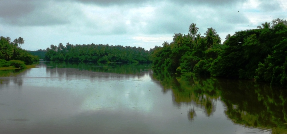 I took this photo on a trip to Arikamedu in 2010